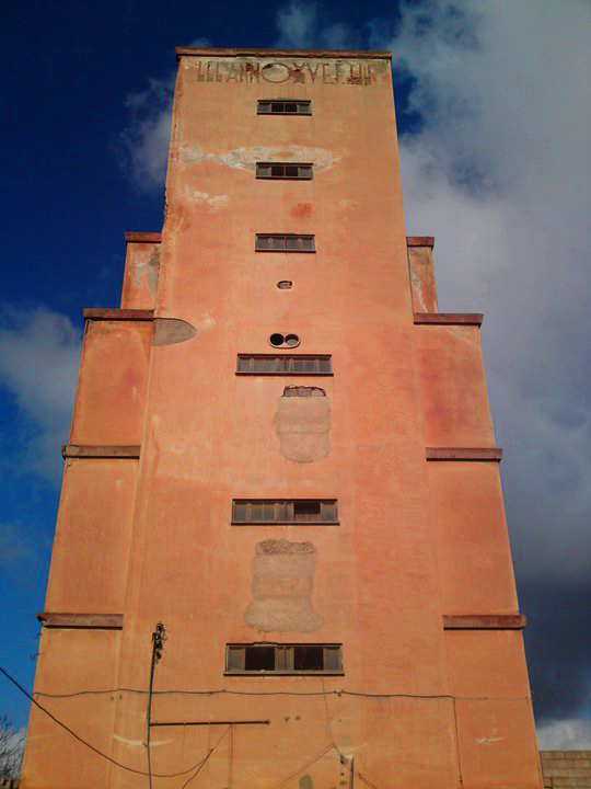 Tower Alsells in Al Bayda City, Libya.